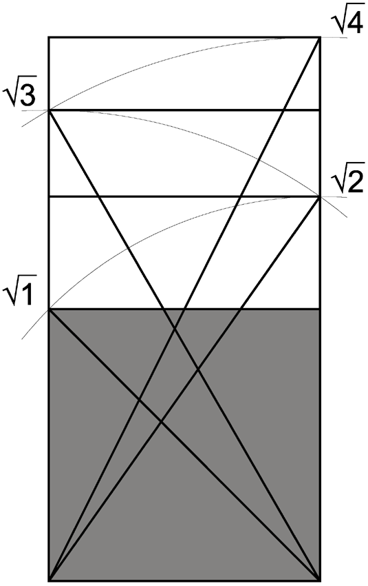 Drawing roots-proportions basing on a square